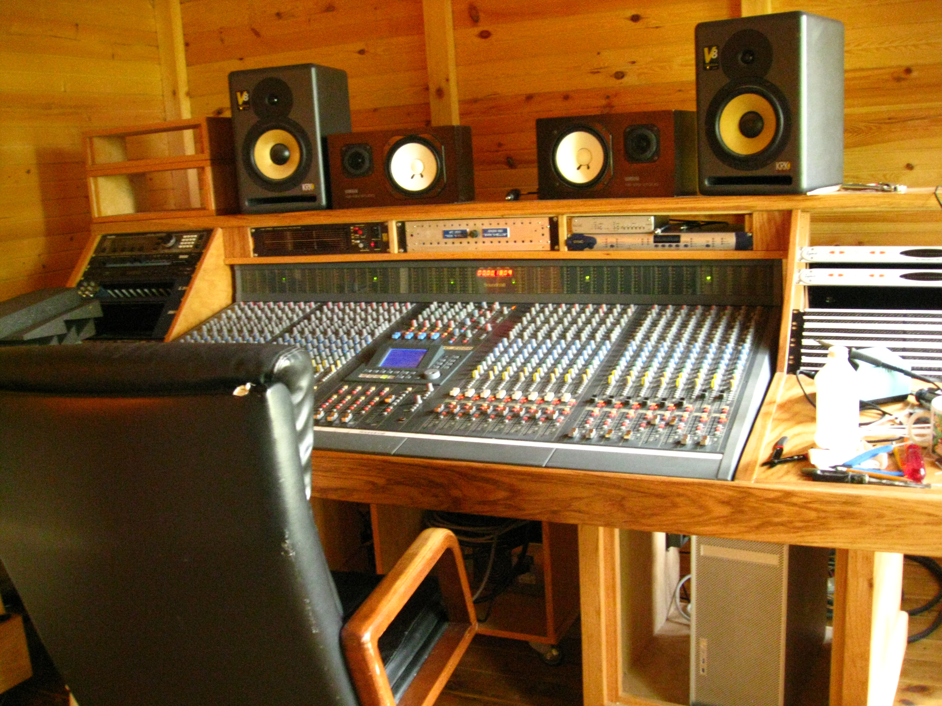 B Room of 'Supernatural Sound Recording Studio - under construction ... digidesign ProTools HD Soundcraft DC2000 monitors KRK V8 YAMAHA NS-10M